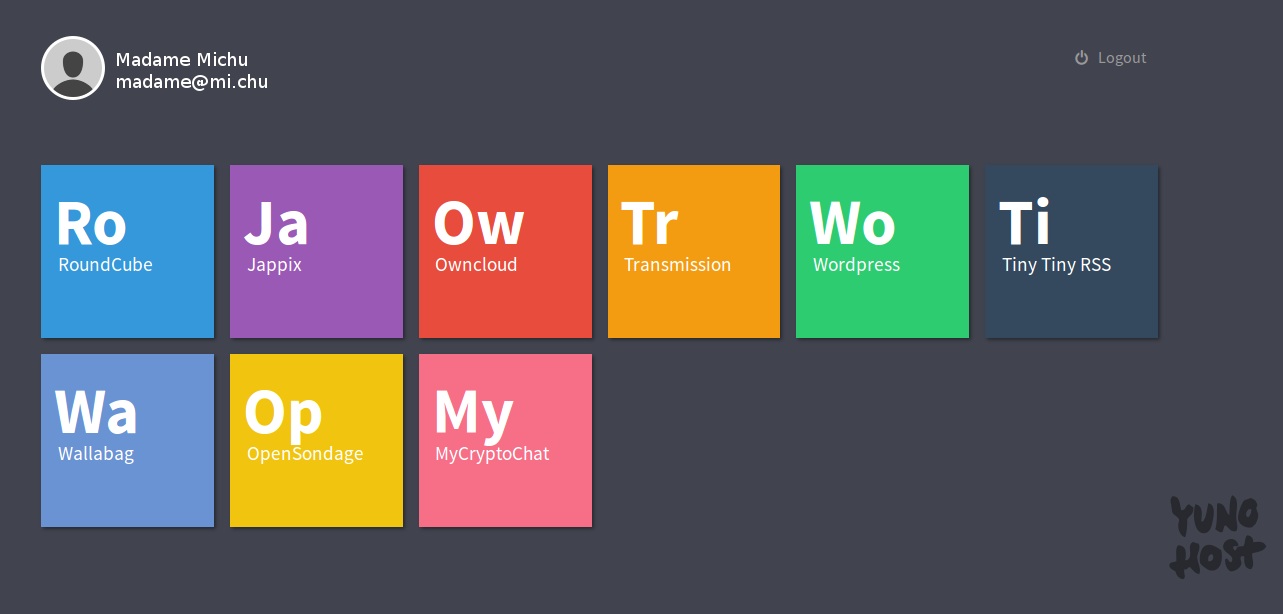 YunoHost User Interface v.2